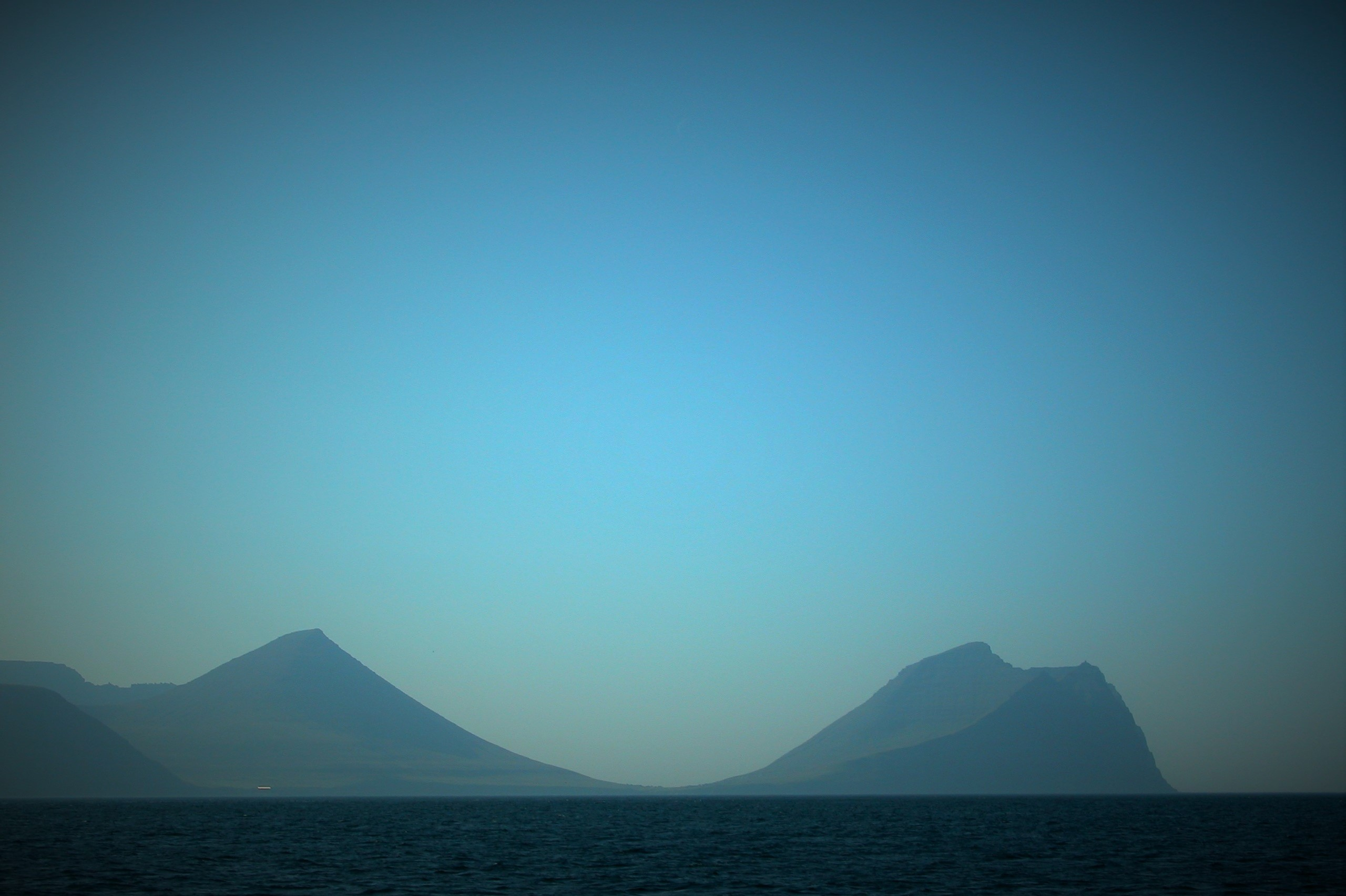 Island Viðoy, Faroe Islands